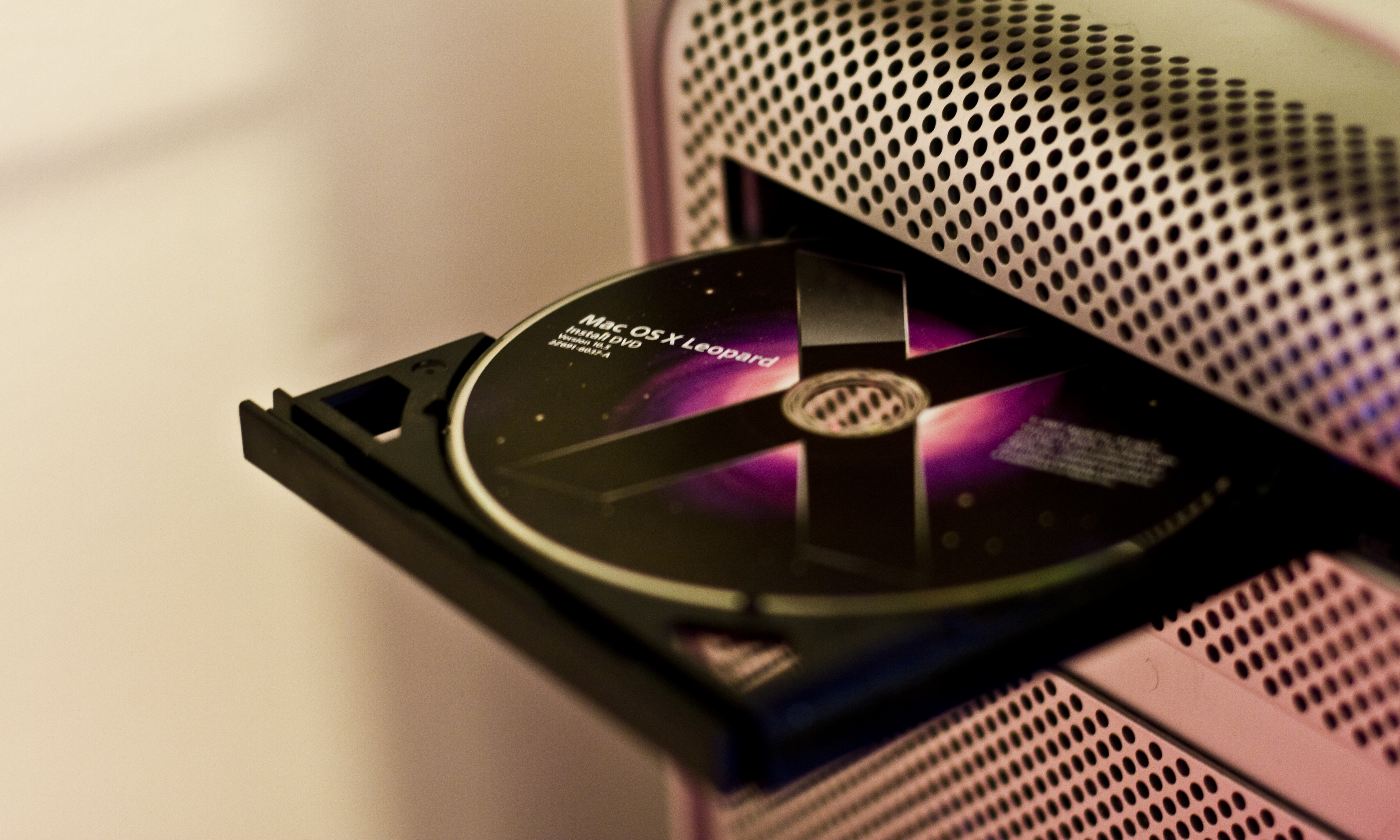 Mac OS X Leopard Install DVD in a Mac Pro.